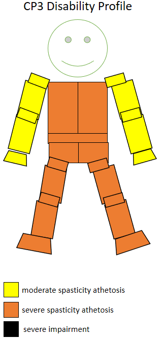 This image descriptions the spasticity athetosis level of a CP3 CP-ISRA classified sports person with cerebral palsy. It was created using information from .